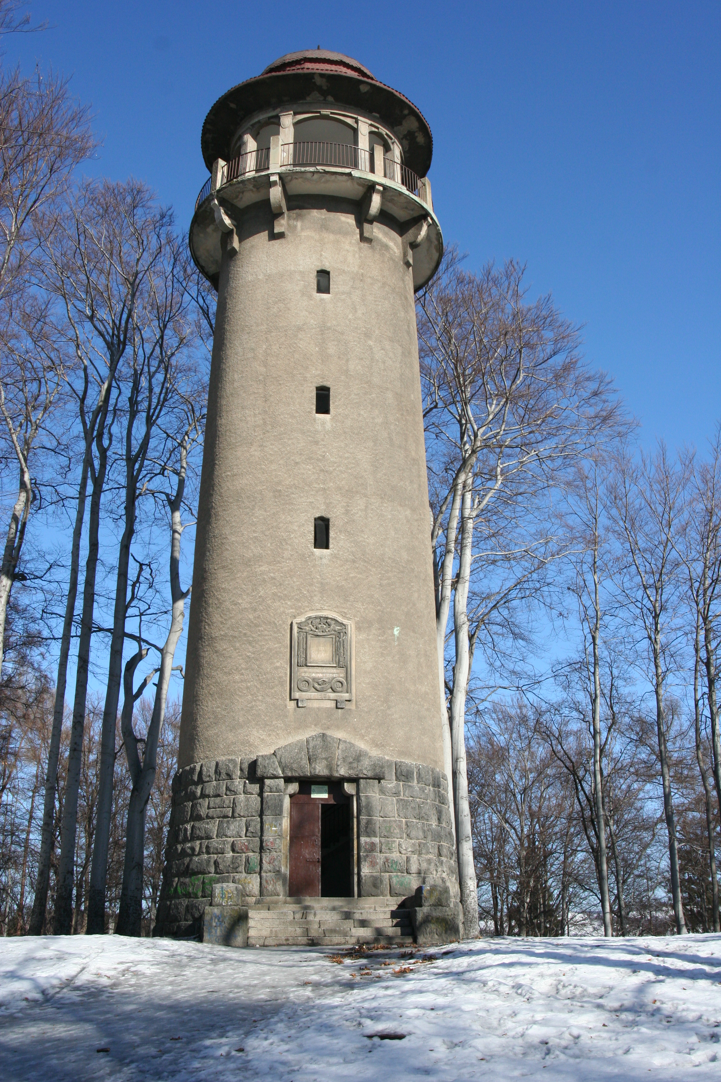 22 metre high tower with observation deck, built in 1911, on the top of Krzywousty Hill, Jelenia Góra, Lower Silesia, Poland.